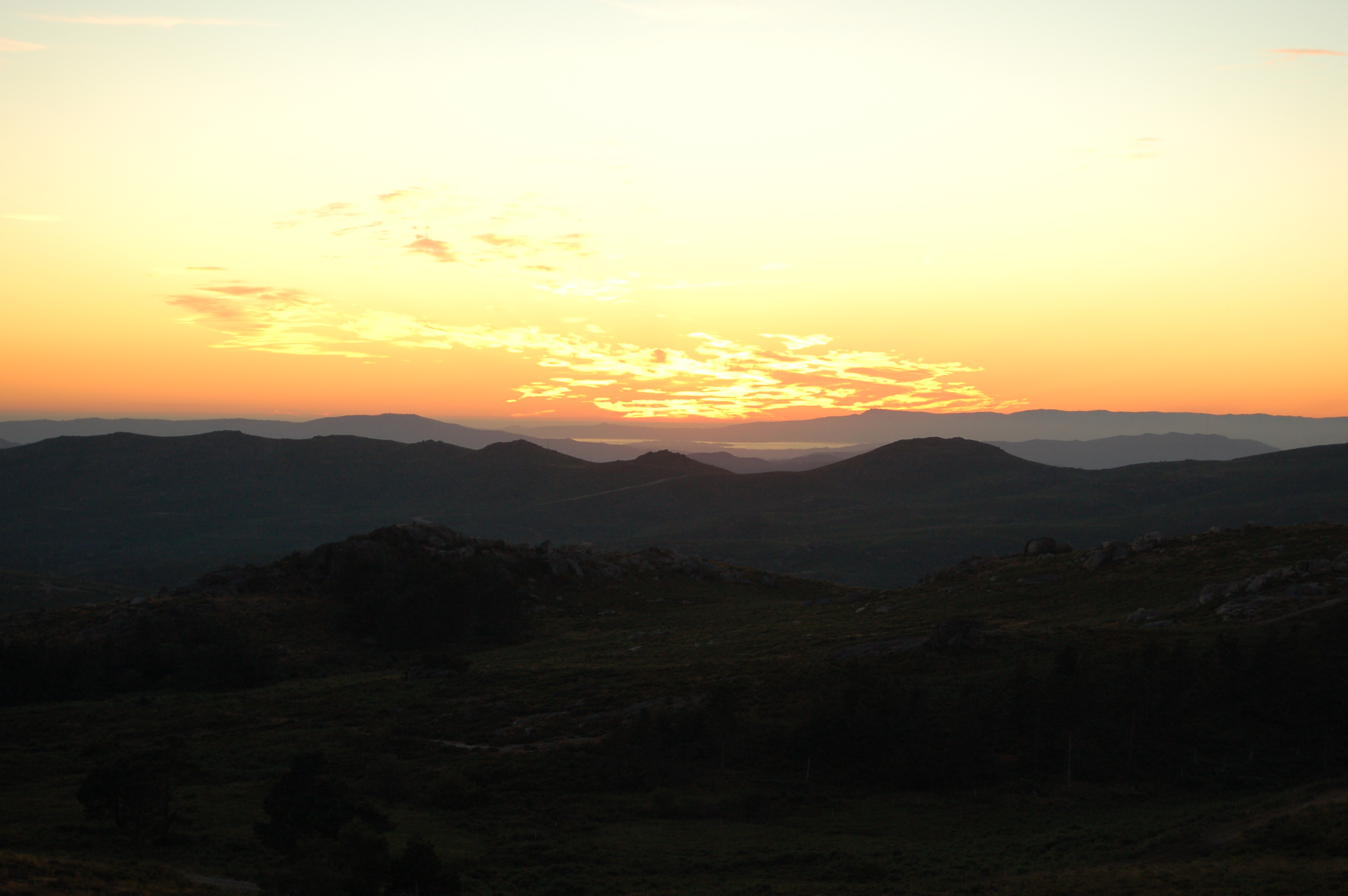 Solpor na Serra do Suído